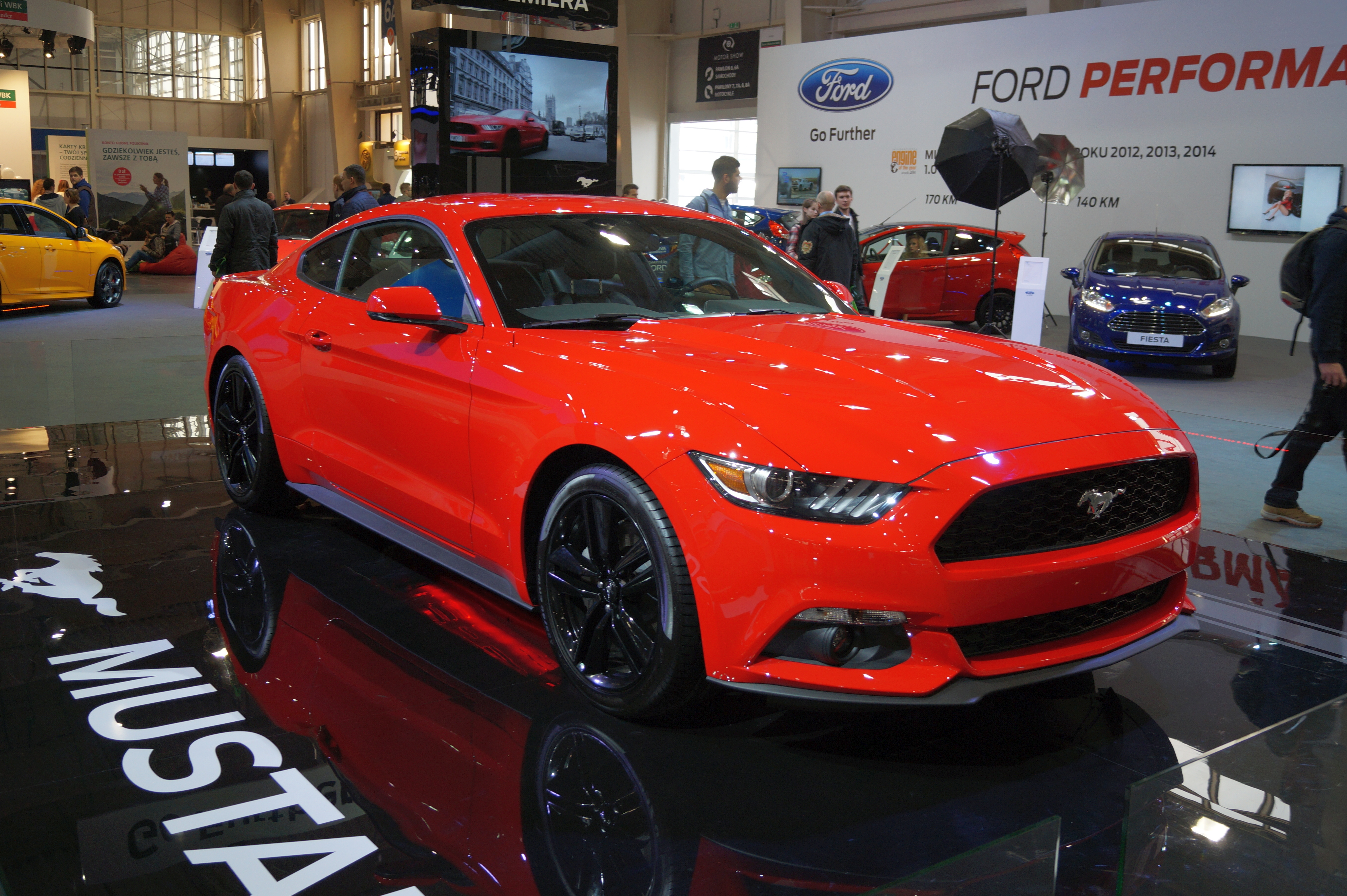 The making of this document was supported by Wikimedia Polska Association, within Wikigrant no. WG 2015-19. Przód Forda Mustanga na Motor Show Poznań 2015